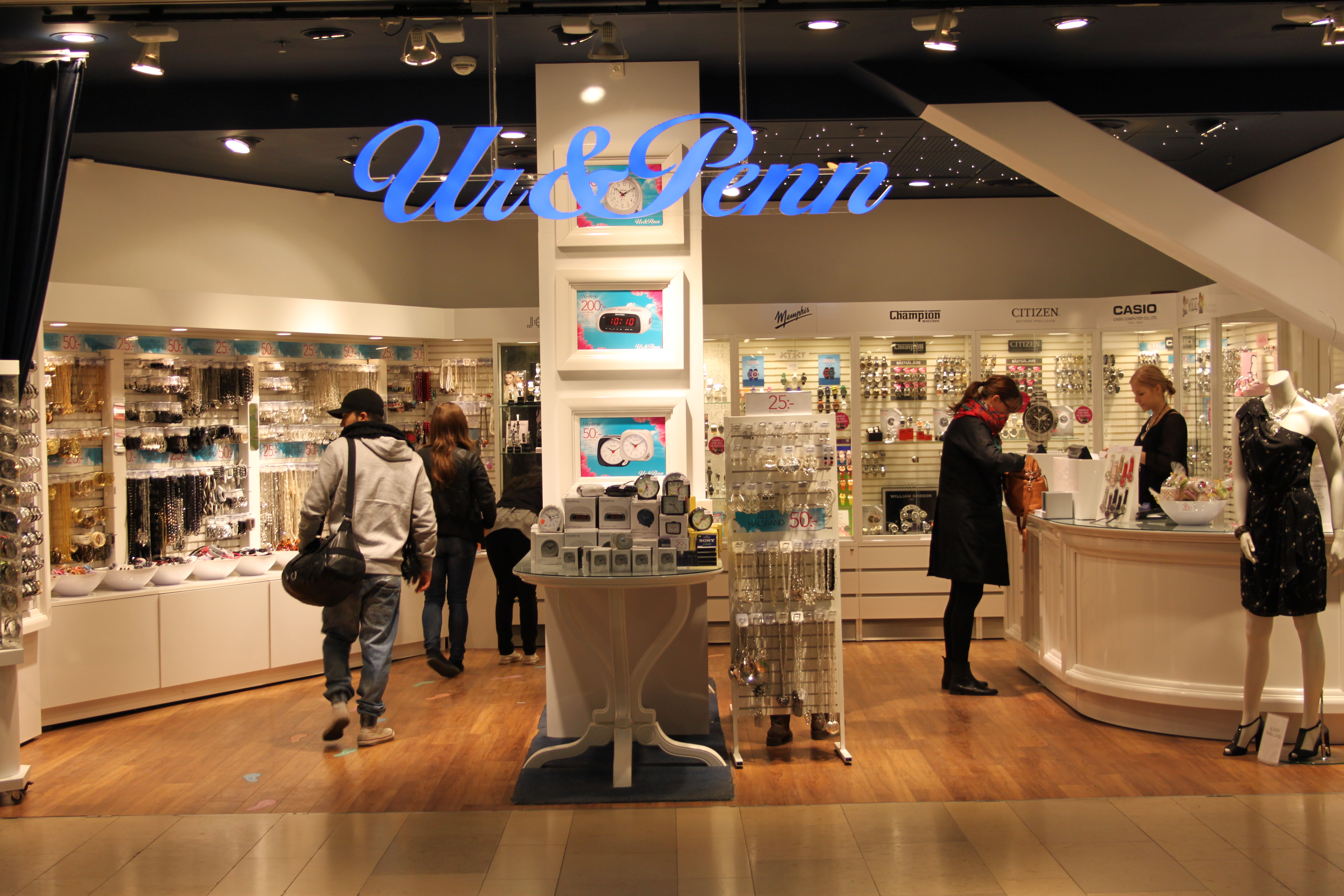 Ur&Penn, a chain of jewelery and watch stores, in a mall in Stockholm.